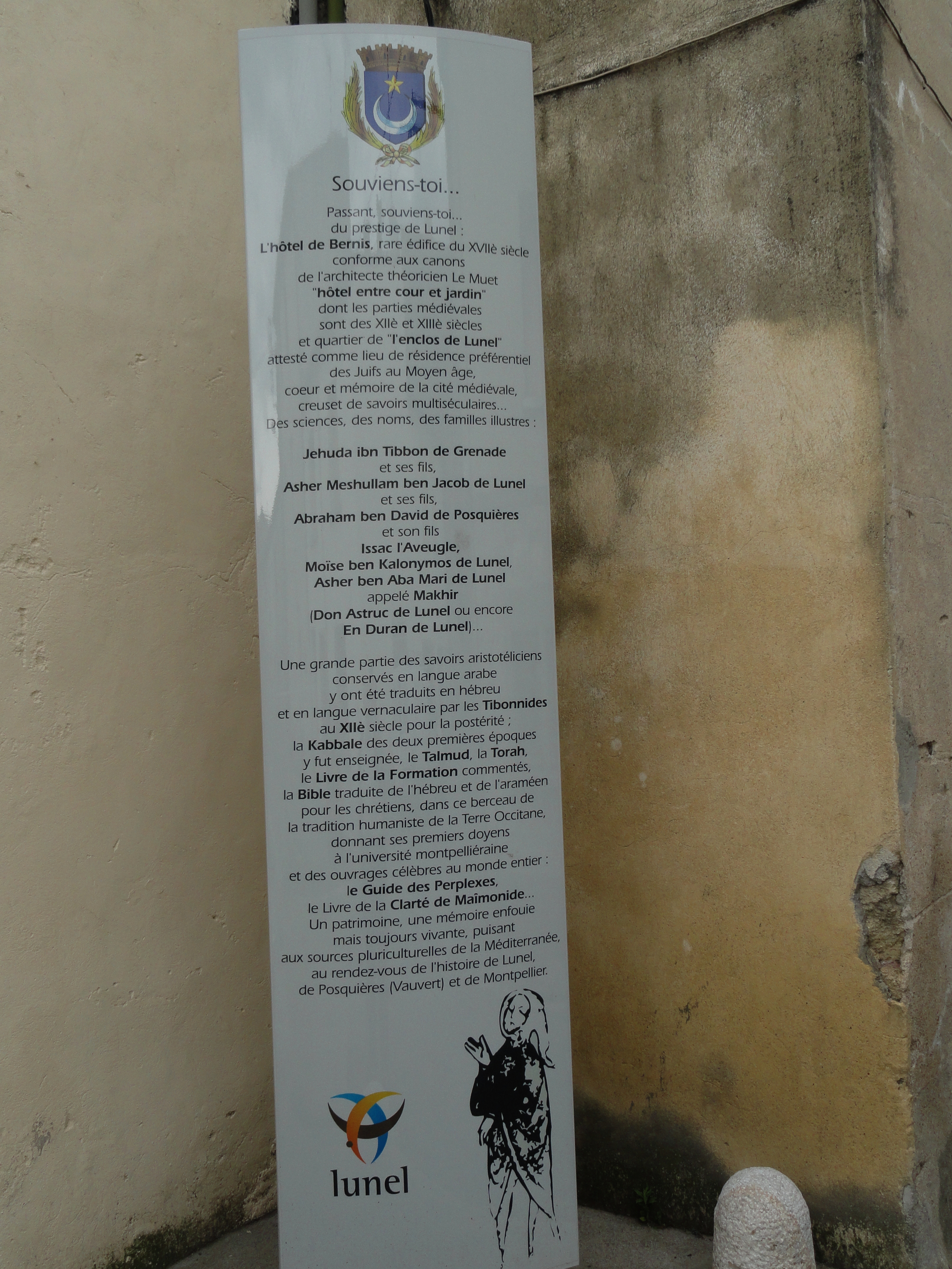 History of the Jews of Lunel during the Middle-Ages.